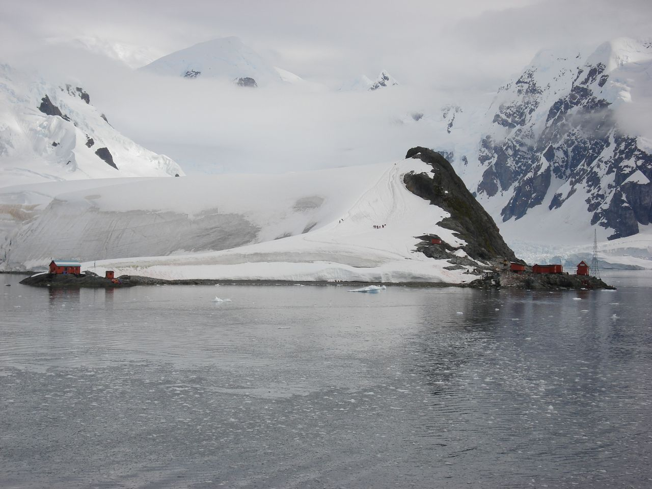 Argentinian Brown Station in Paradise Harbour in Antarctica.